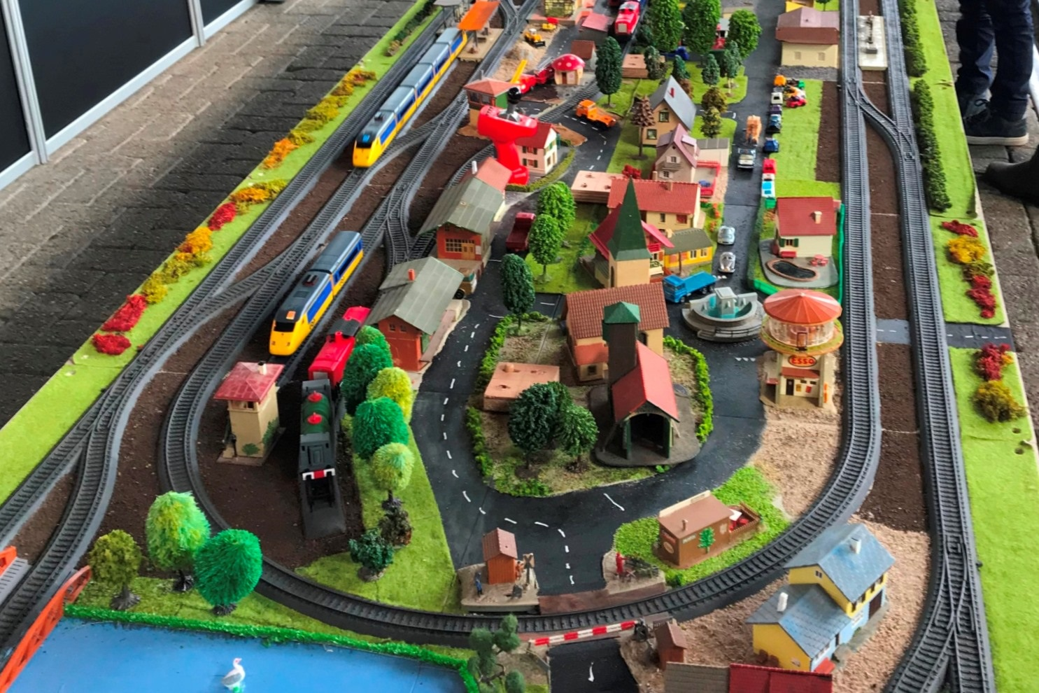 C-Trak modules with Märklin my World tracks for H0 gauge and battery operated trains at the On traXS! 2018 in the Netherland Railway Museum in Utrecht.